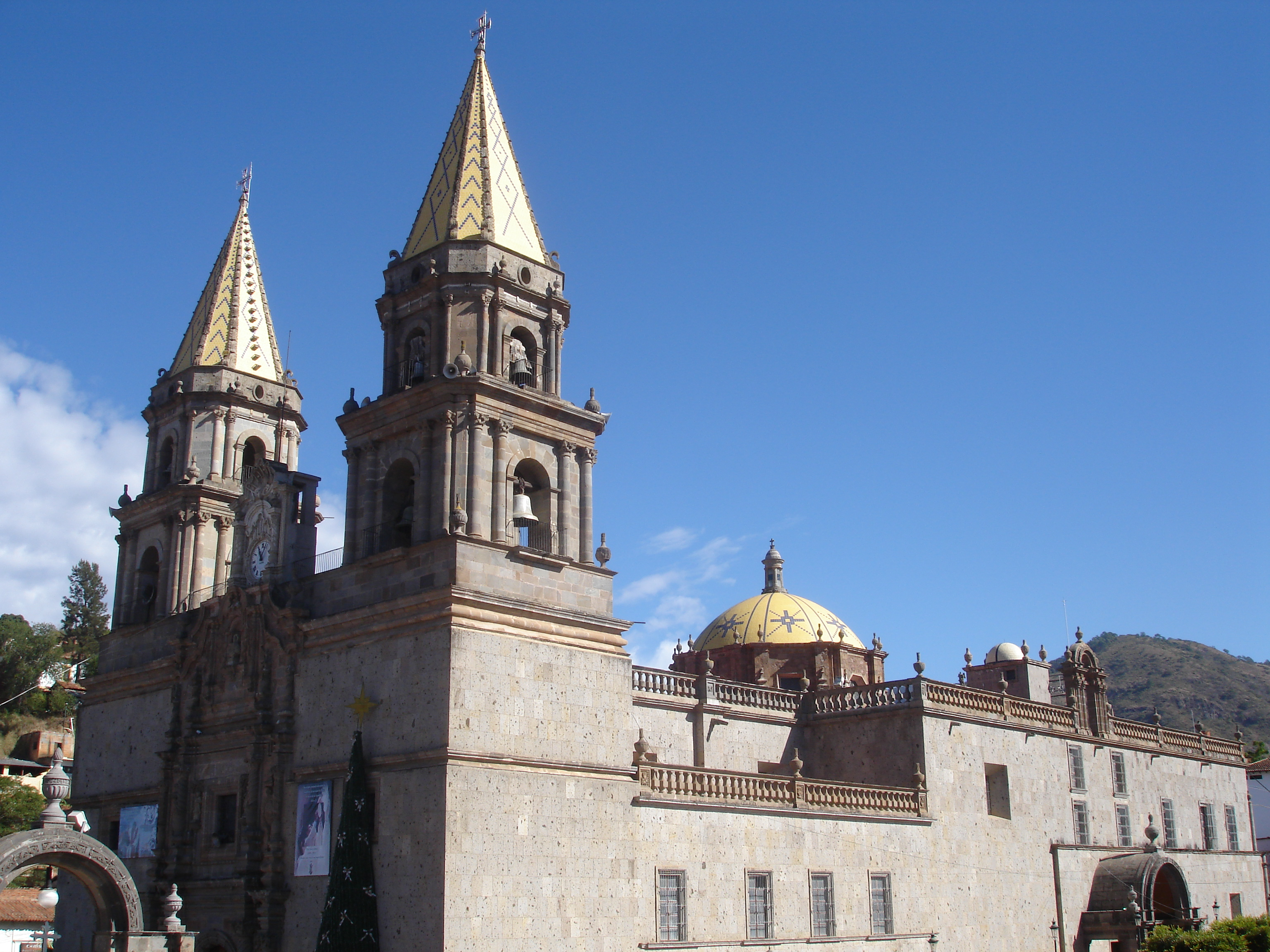 Cathedral Basilica of Our Lady of Rosary, Talpa de Allende Jalisco, Mexico.